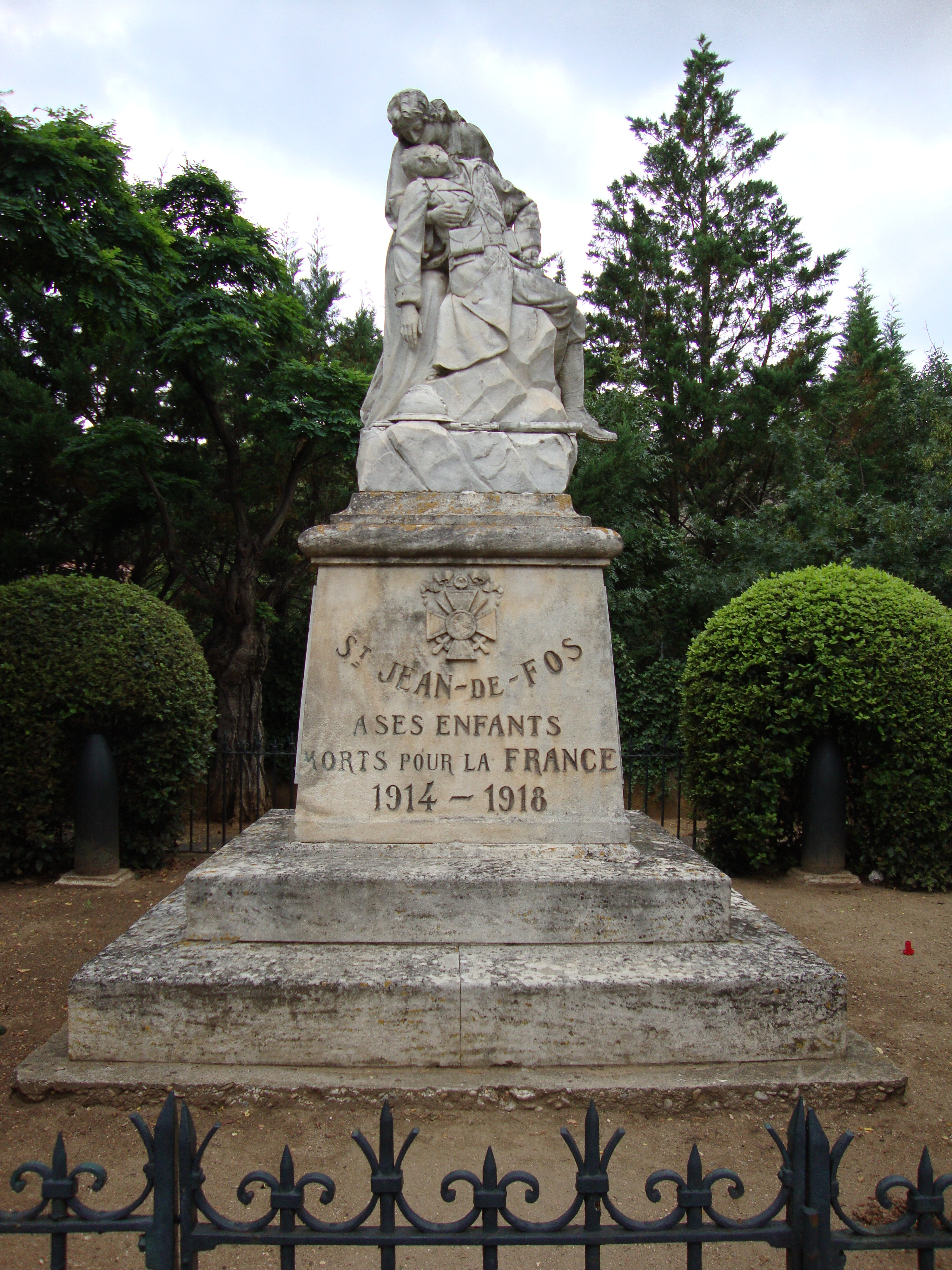 Saint-Jean-de-Fos (Hérault, Fr) war memorial